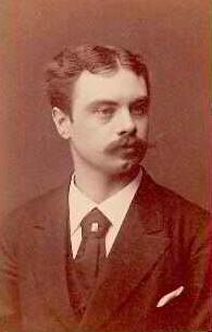 Håkansson, Carl Reinhold F. 1854. D. 1892. Kapten. Anställd i Kongo-associationens tjänst 1884-87. Deltog i Alexander Delcommunes expedition till Kongoflodens källor 1890-92. Upplands regemente.